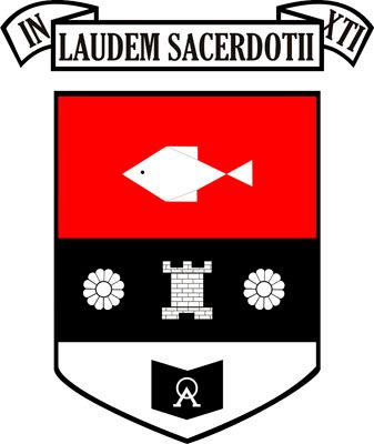 Firmasdsad.jpg